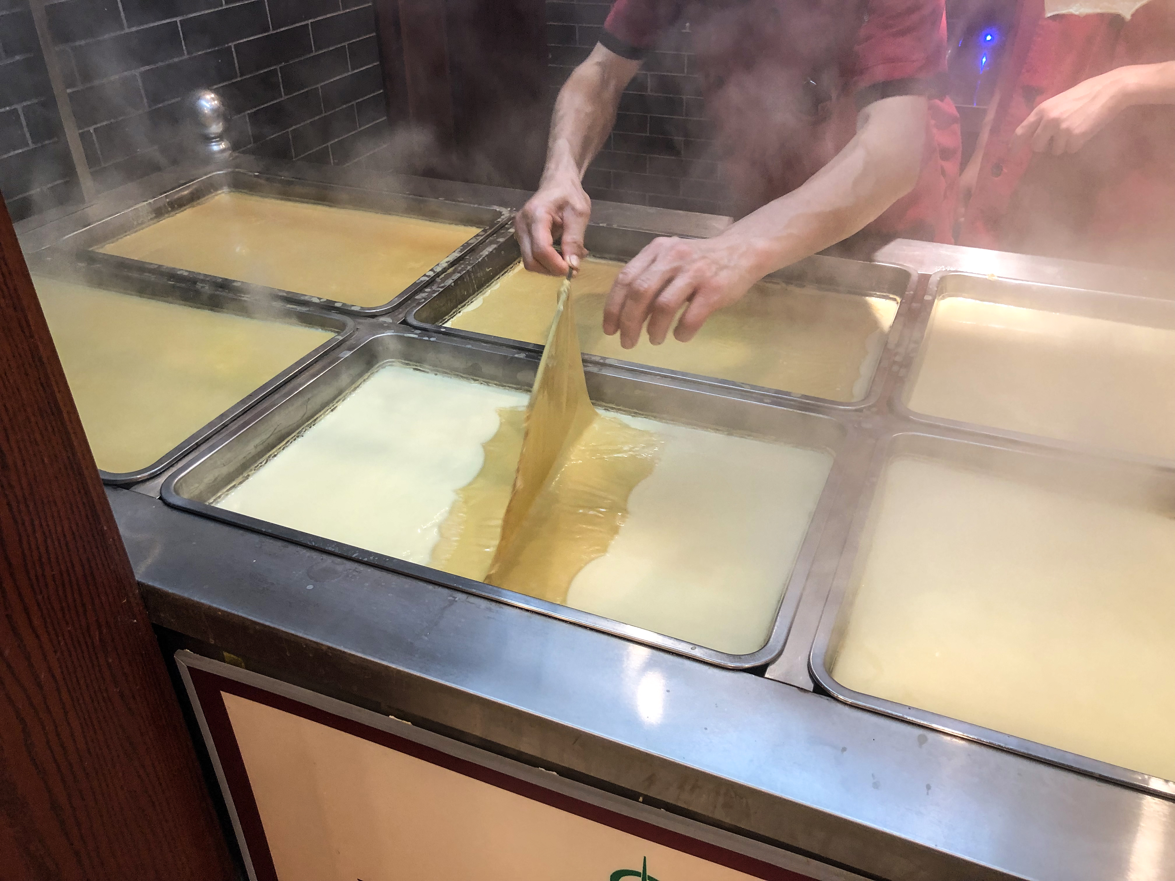 Then the soymilk becomes visible. This photo has been taken in the country: China